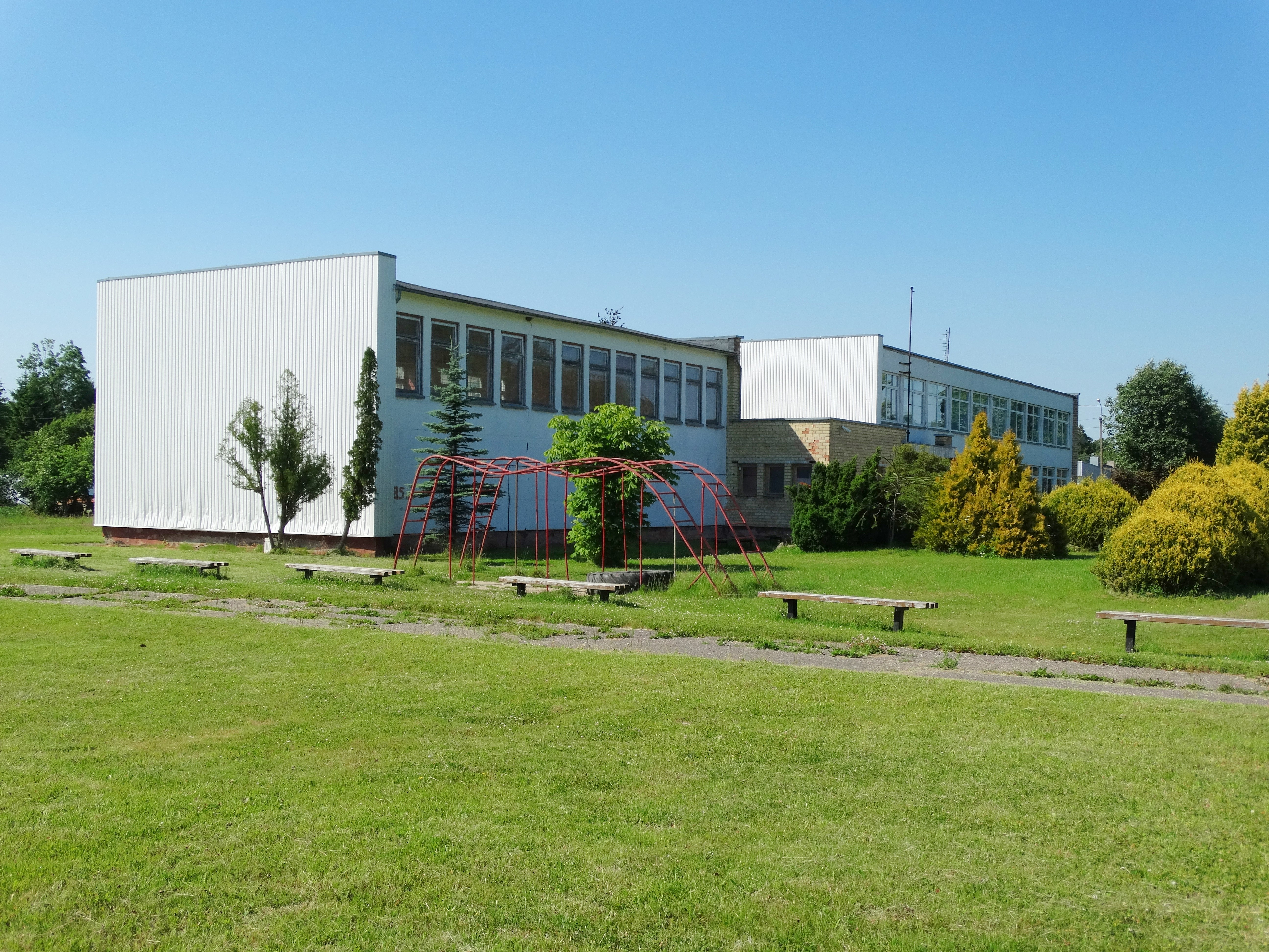 School, Žlibinai, Plungė District, Lithuania